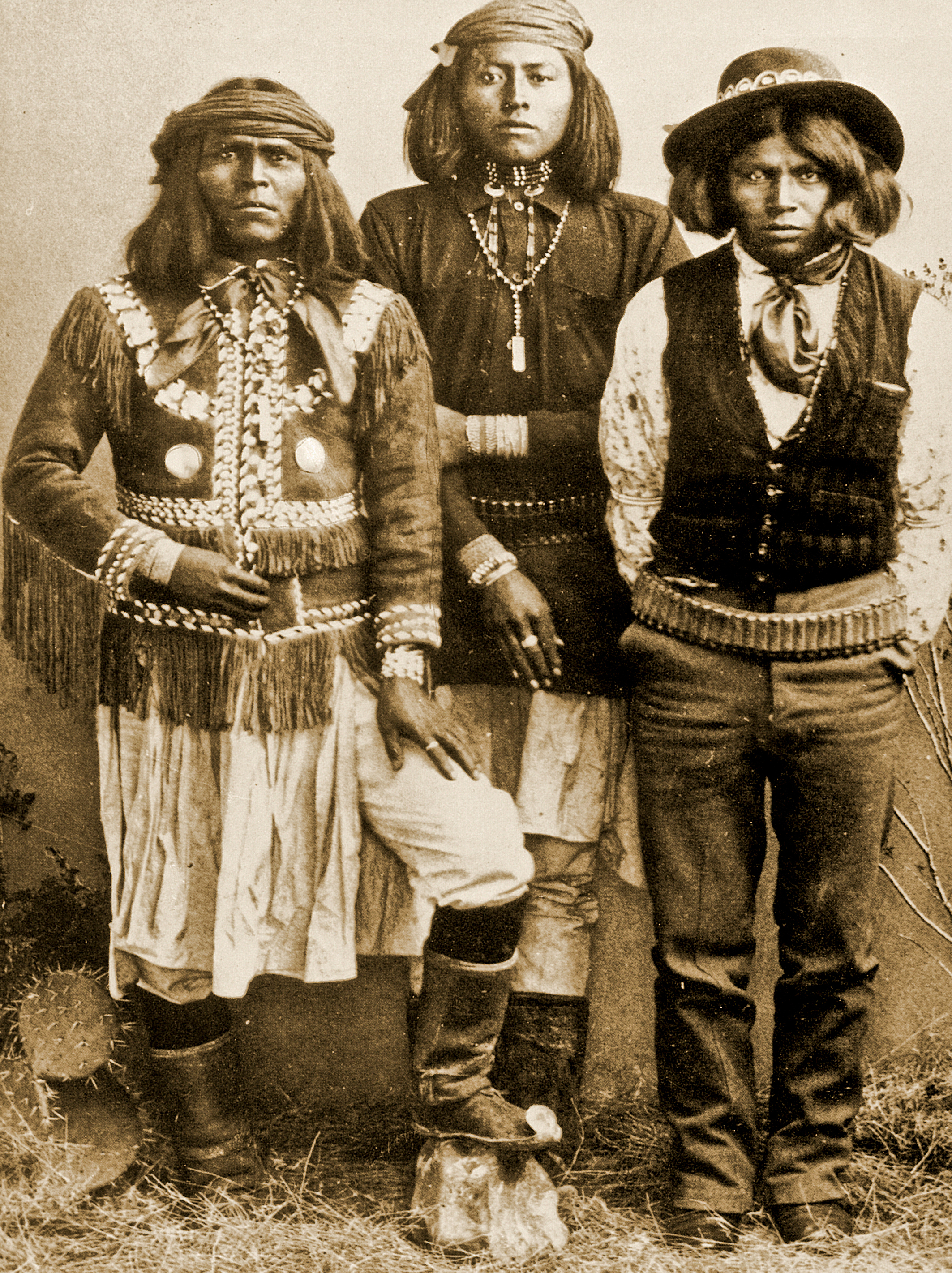 Portrait of Three Young Men, Two in Native Dress n.d. (Yavapai Tribe) SPC Sw Yavapai BAE 5-7 02396900, National Anthropological Archives, Smithsonian Institution